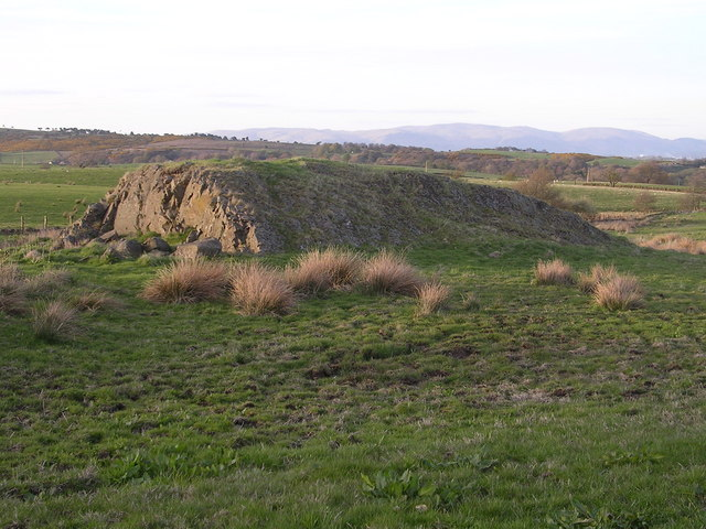 Roche moutonnée below Myot Hill. A roche moutonnée is a rock that has been shaped by glacial ice flowing over it.